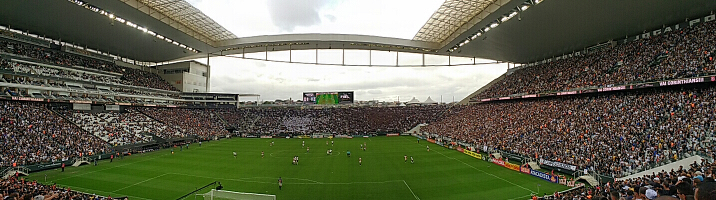 Domestic scene the afternoon of Arena Corinthians